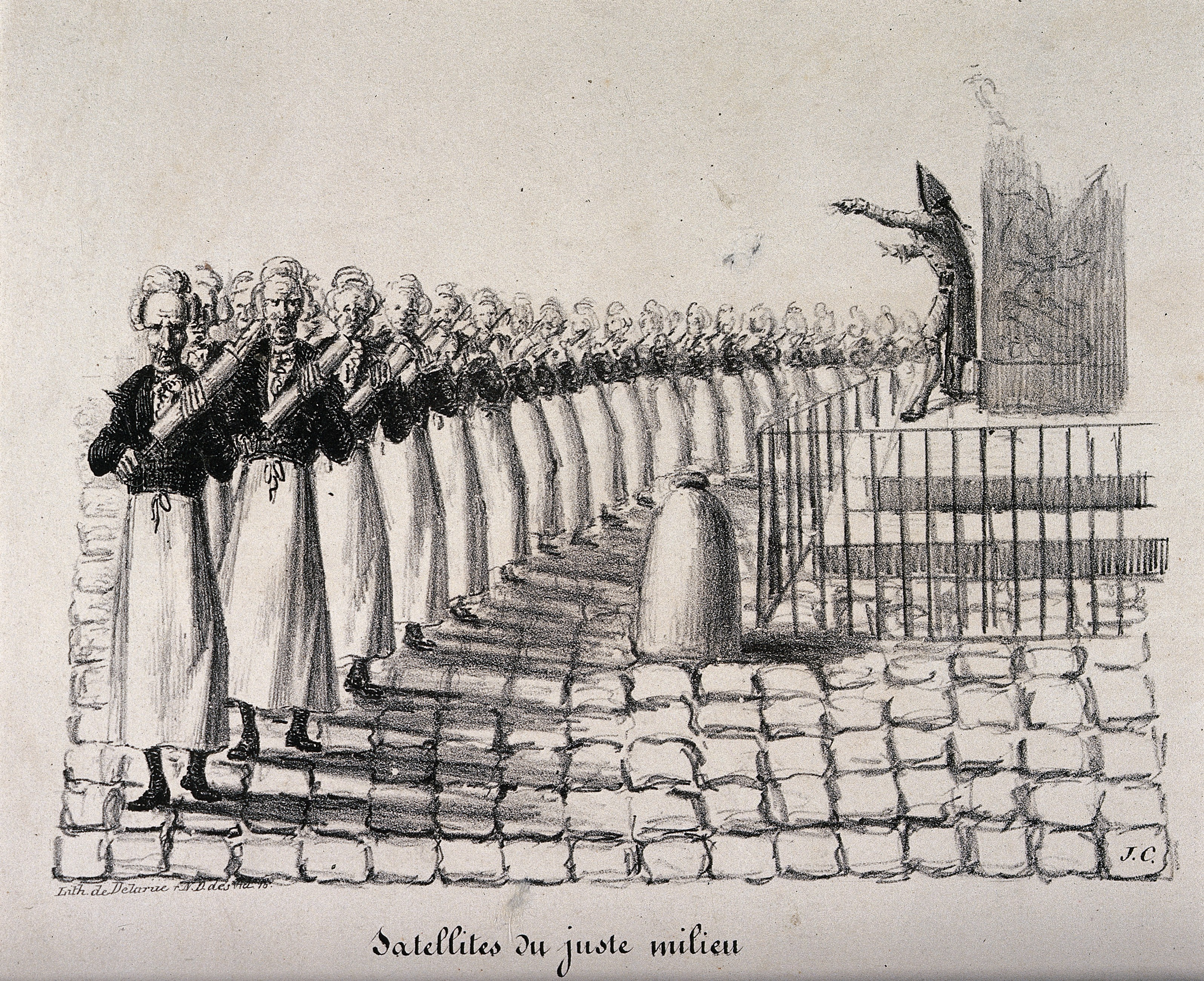 Topic-LCSH: Enema. Public health -- France. Pharmacists -- France -- 19th century. Physicians -- Clothing. Generals -- France -- 19th century. Military uniforms. Riot control -- France -- 19th century. Demonstrations. Water. Genre/Technique: Caricatures. Lithographs.